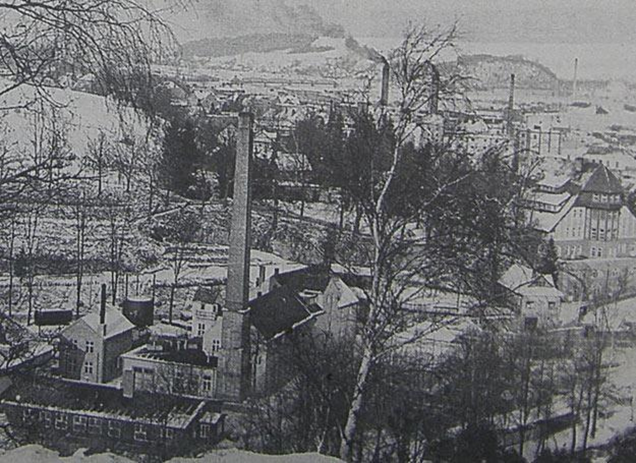 Willa Boberhaus i zakłady chemiczne Dr Wartha